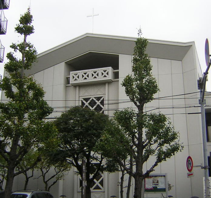 Kashiwagi CHURCH